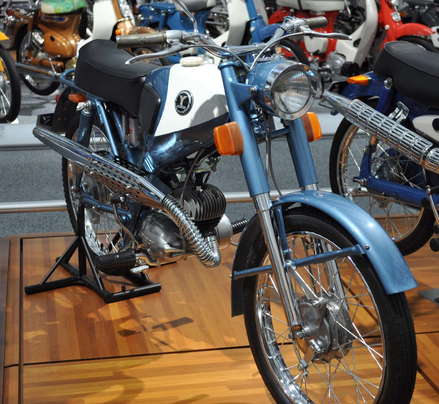 Yamaguchi Autopet Sports SPB (1962)